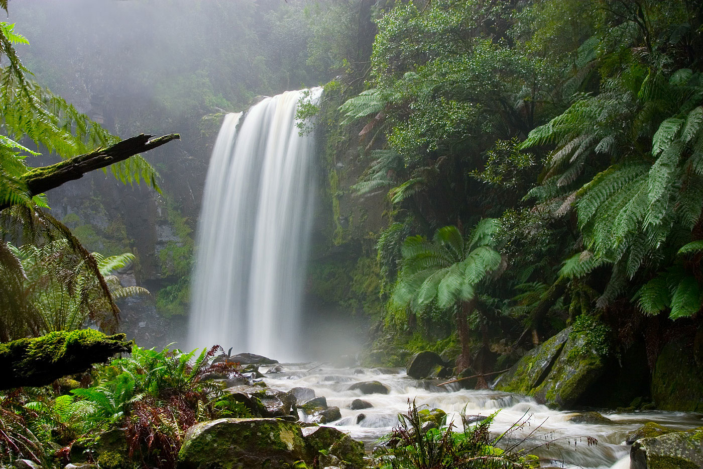 Hopetoun Falls, Beech Forest, near Otway National Park, Victoria. Taken on the 27th of July, 2005 with a Canon 10D and 17-40 f/4L lens. Edited by Fir0002